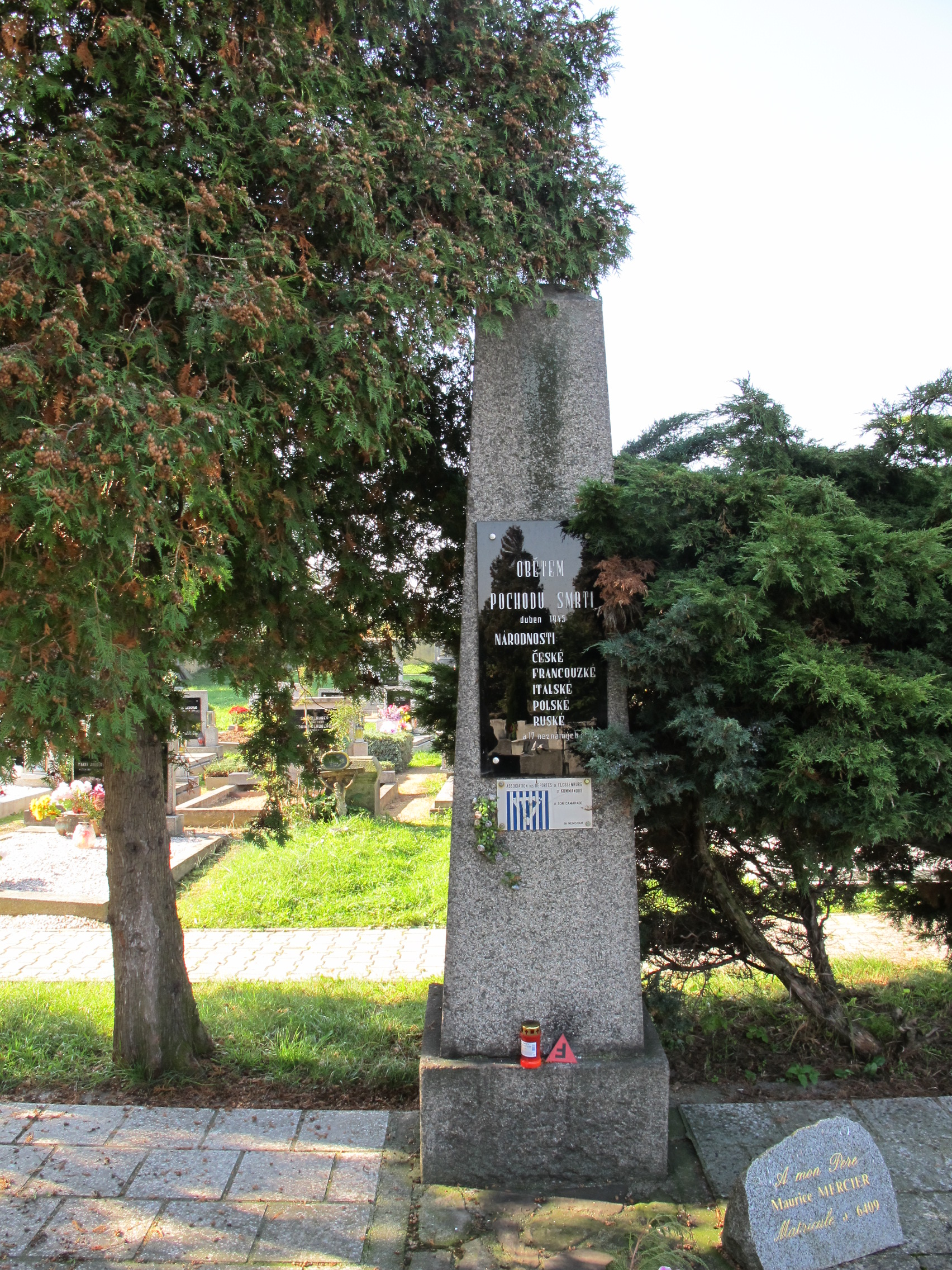 Memorial of 60 victims of World War II in Lubenec